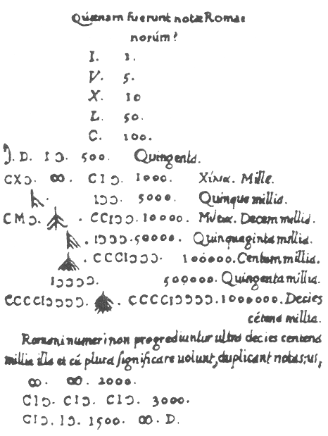 Roman Numerals in a work by a Swiss Author named Freigius (1543-1583), published 1582